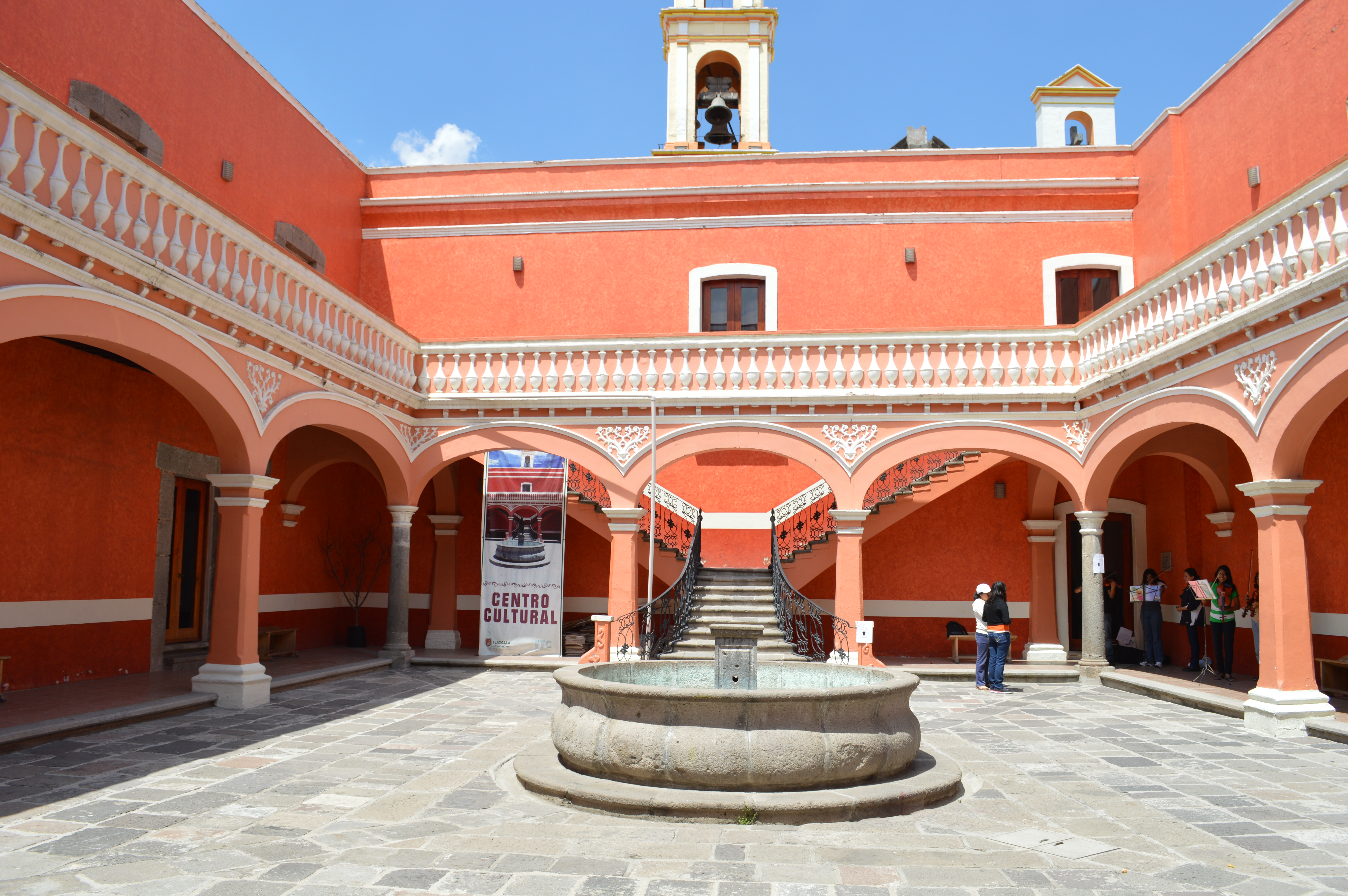 Courtyard of the Huamantla Cultural Center in Huamantla, Tlaxcala, Mexico